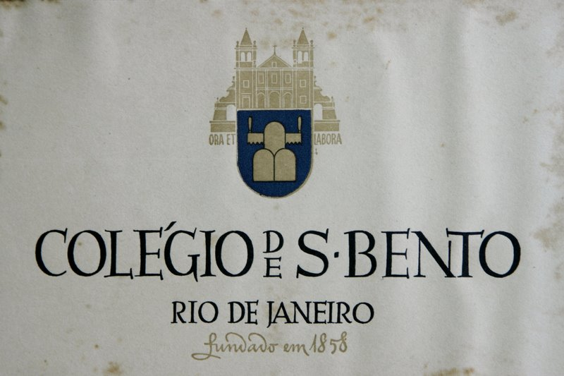 Alternate logo of Colégio de São Bento do Rio de Janeiro, Brazil.